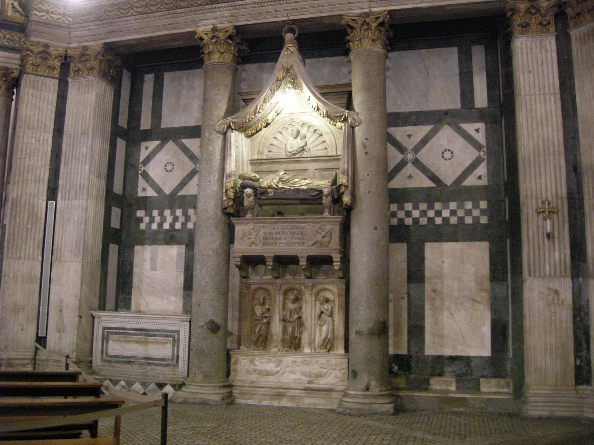 Antipope John XXIII tomb 001